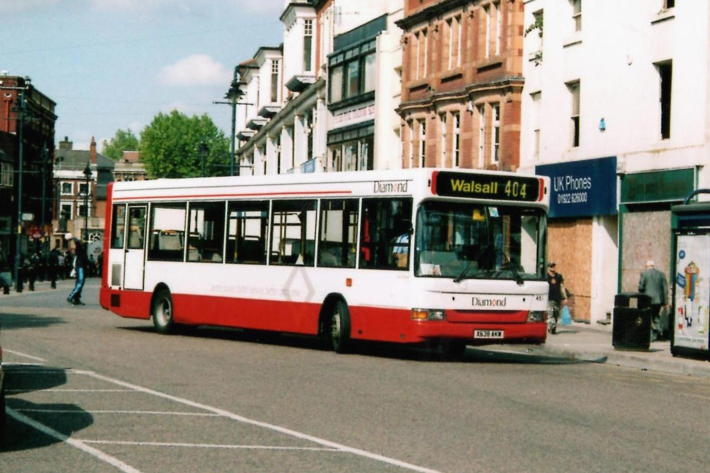 Diamond Bus 451 (X638 AKW), a Dennis Dart SLF with Plaxton Pointer bodywork, operating route 404 at Walsall in June 2007.